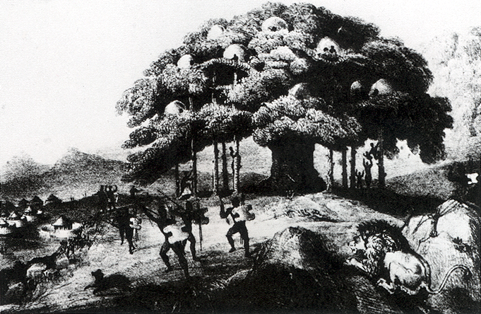 The Kwena people (or Bakone people) built their huts in huge wild fig trees, in order to live out of reach of lions.